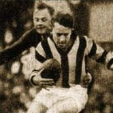 Collingwood footballer Des Fothergill (born 1920)